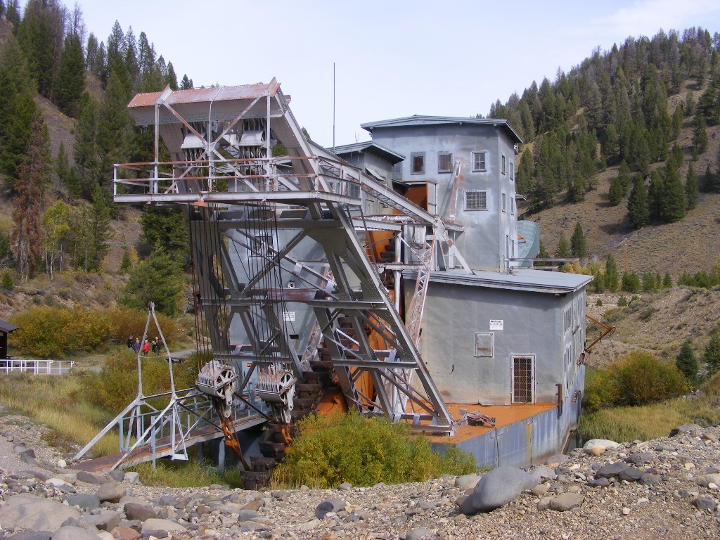 I got a chance to go see the Yankee Fork gold dredge this fall when I was working in Idaho. It was powered by two 350 horse Ingersoll-Rand, 7 cylinder diesel engines, burning 400 to 500 gallons of fuel a day.